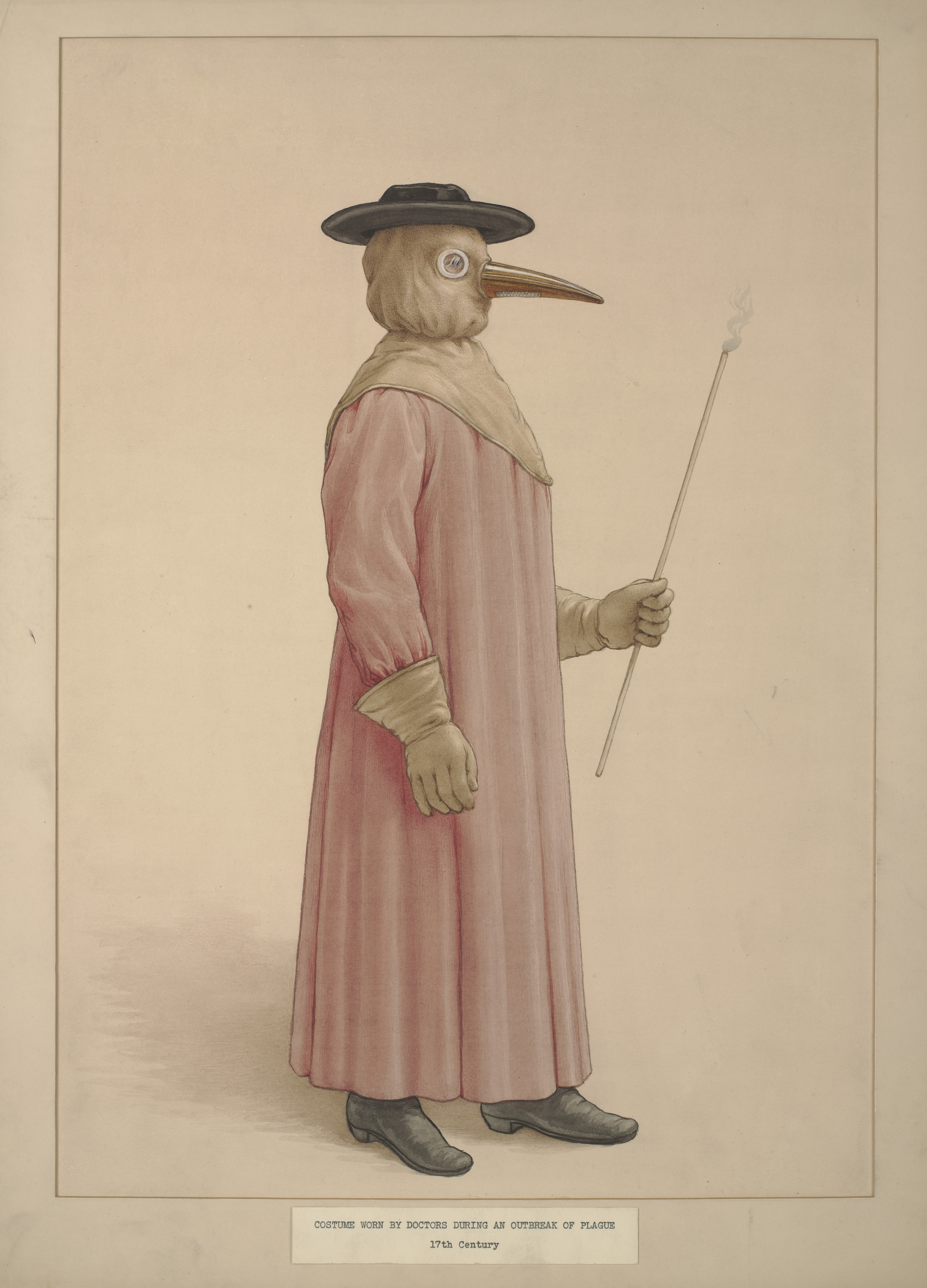 A physician wearing a seventeenth century plague preventive costume. Watercolour. Iconographic Collections